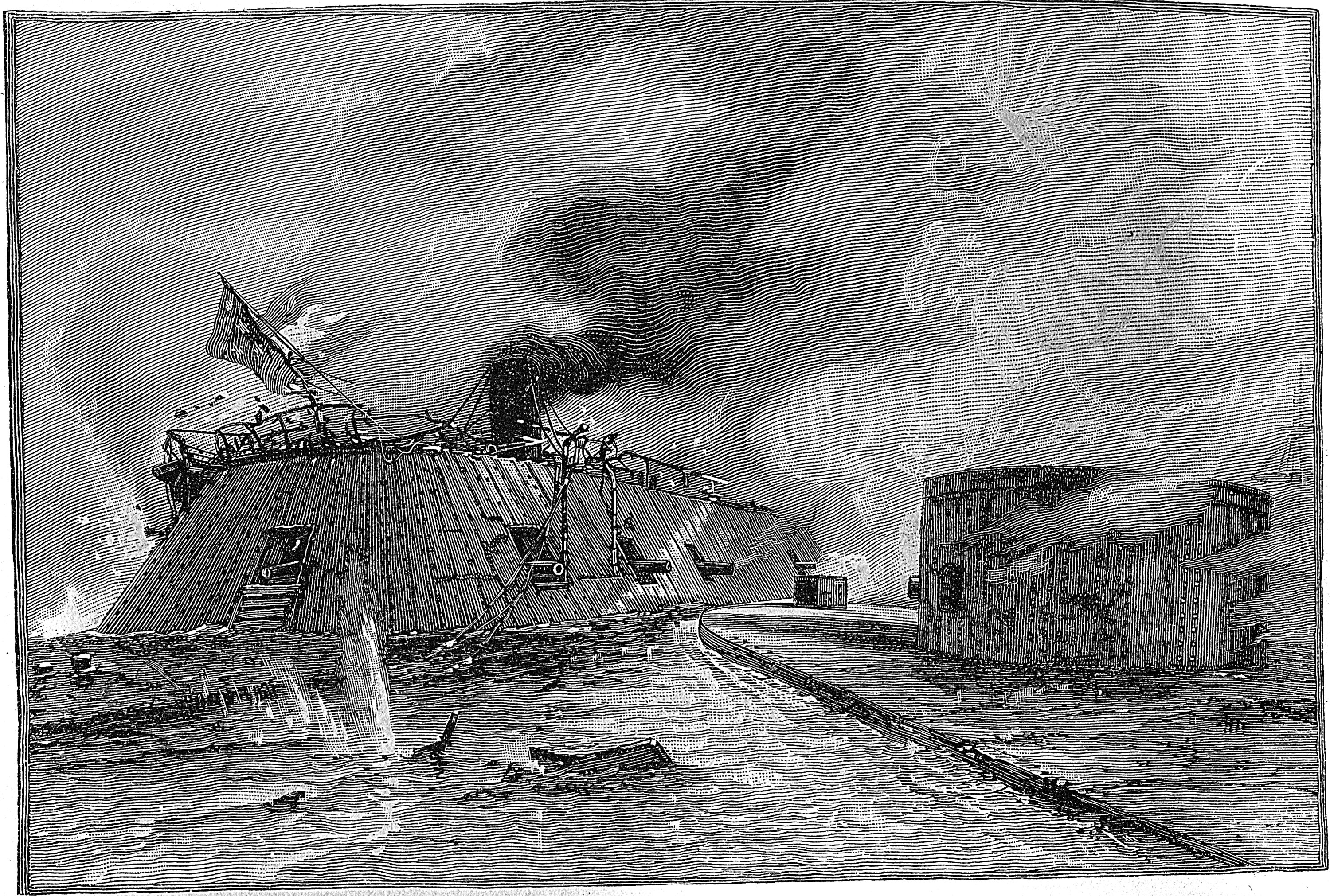 Battle Between the Monitor and Merrimac, from an old wood engraving.